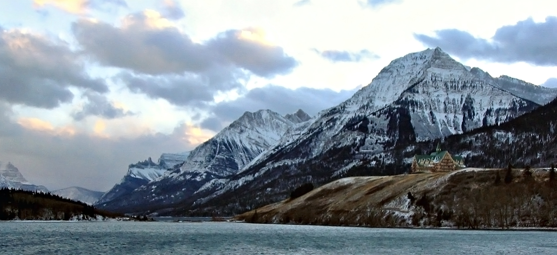 Upper Waterton Lake with Prince of Wales Hotel in Waterton Lakes National Park